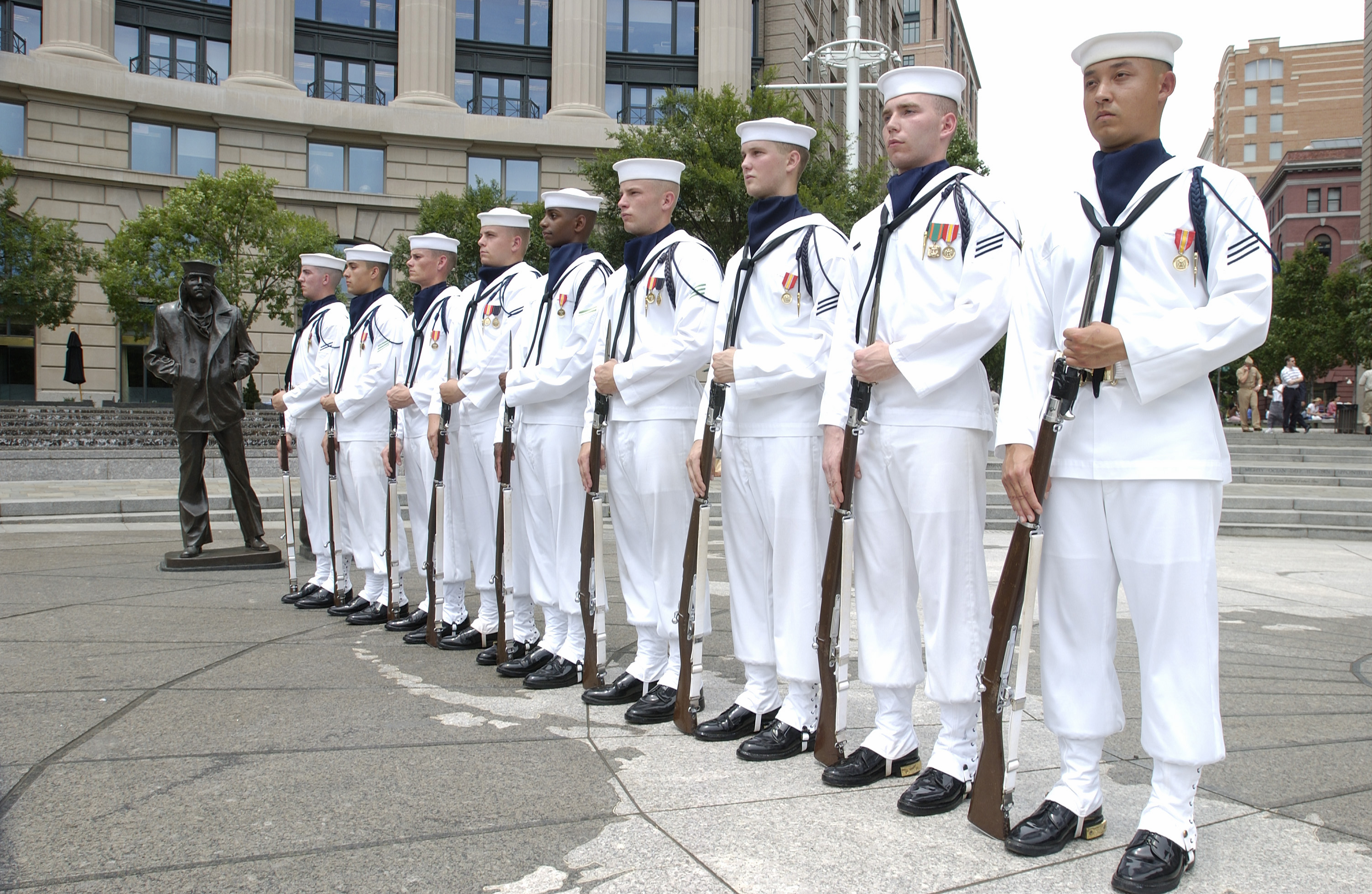 Washington, D.C. (Jul. 7, 2003) -- Members of the U.S. Navy Ceremonial Guard stand in formation next to the Lone Sailor statue at the U.S. Navy Memorial. The ceremonial guard performs on Tuesdays for the public at the memorial. The unit is made up of hand-picked sailors reporting directly from Navy basic training, who are specially trained to perform various military ceremonial honors. U.S. Navy Photo by Chief Photographer's Mate Chris Desmond. (RELEASED)